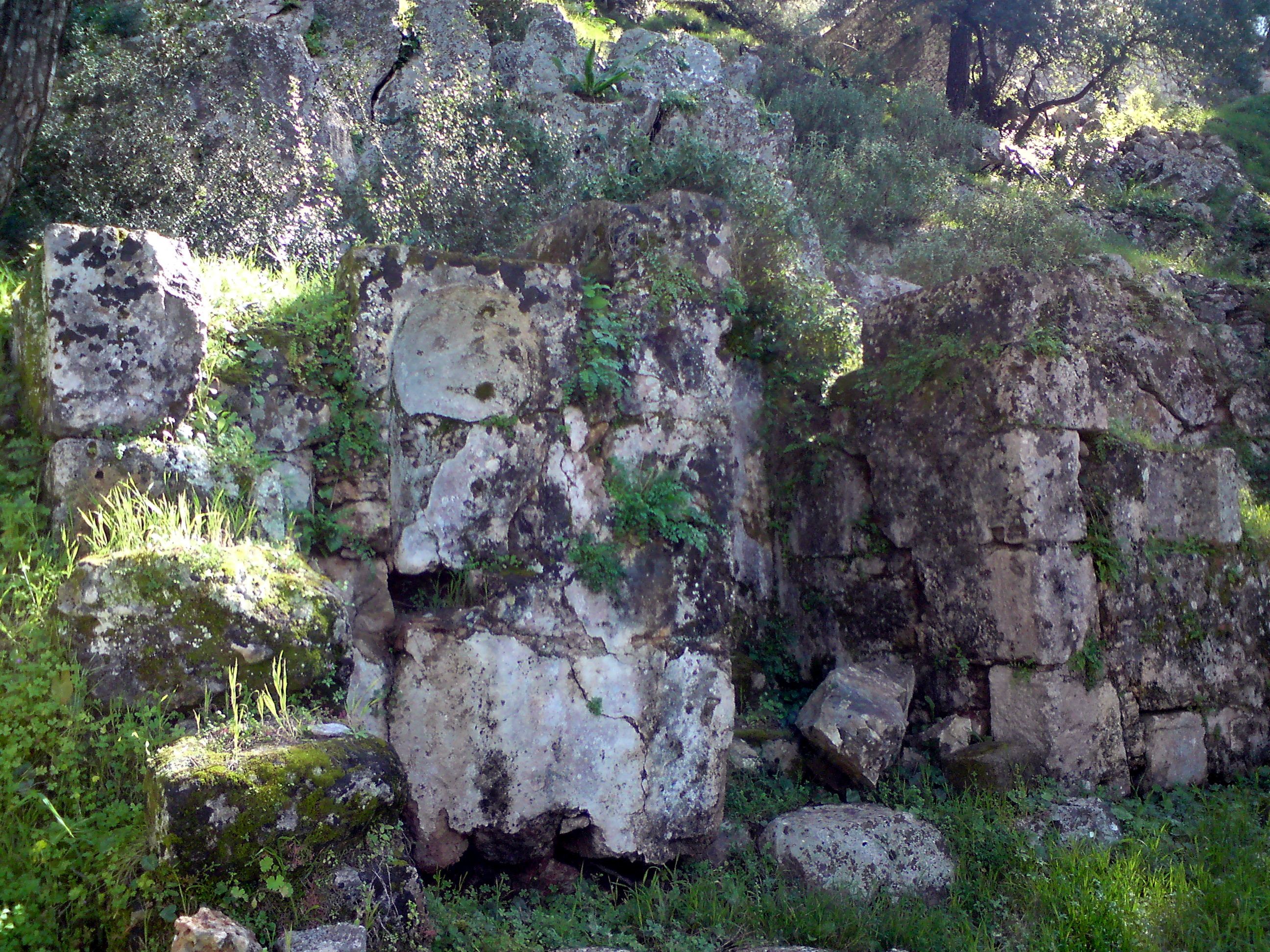 The ruins of the byzantine church Agia Triada in the archaeological site of Ancient Krani, Argostoli, Kefalonia, Greece